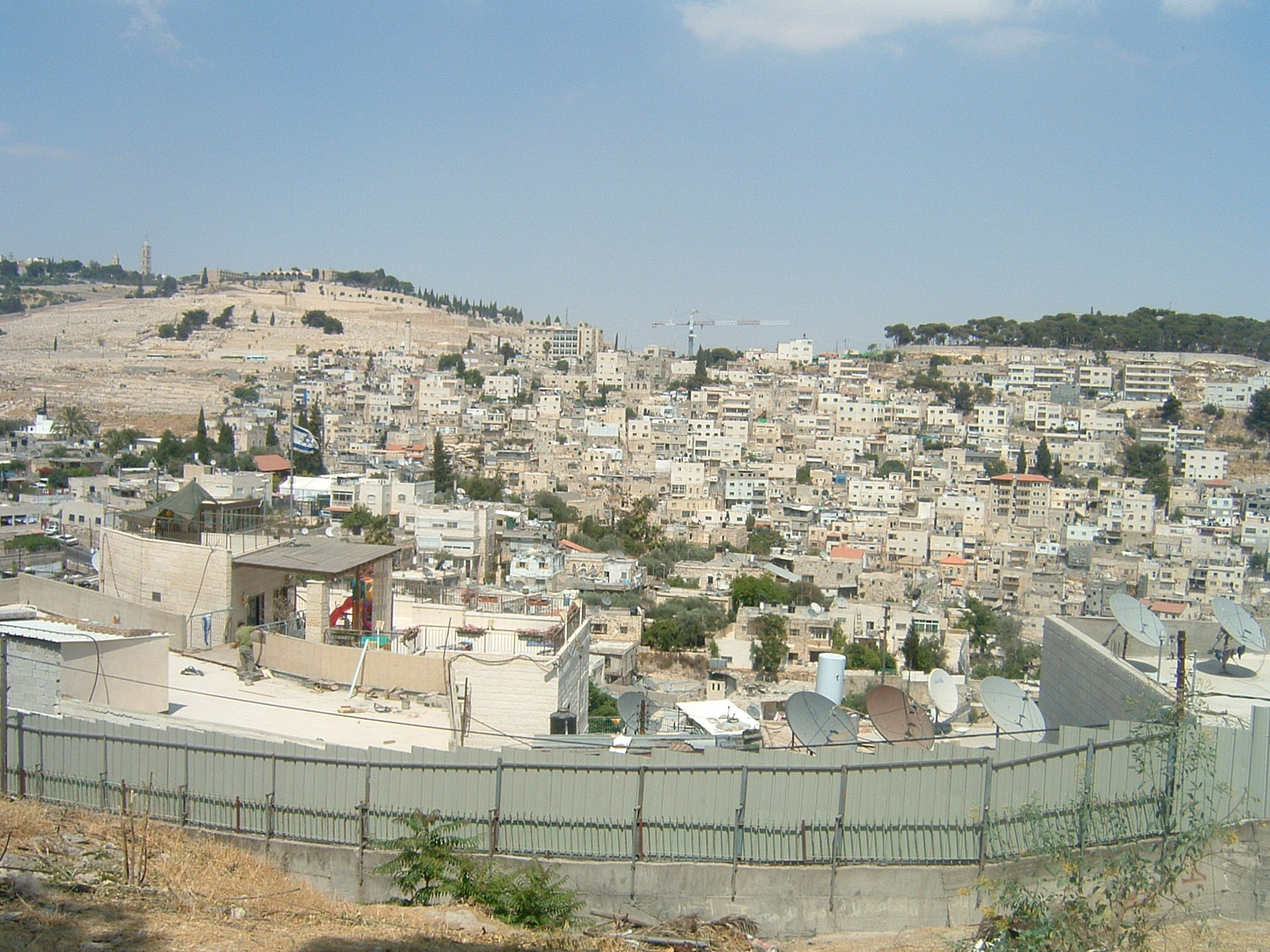 jewish settlers in East Jerusalem, Silwan